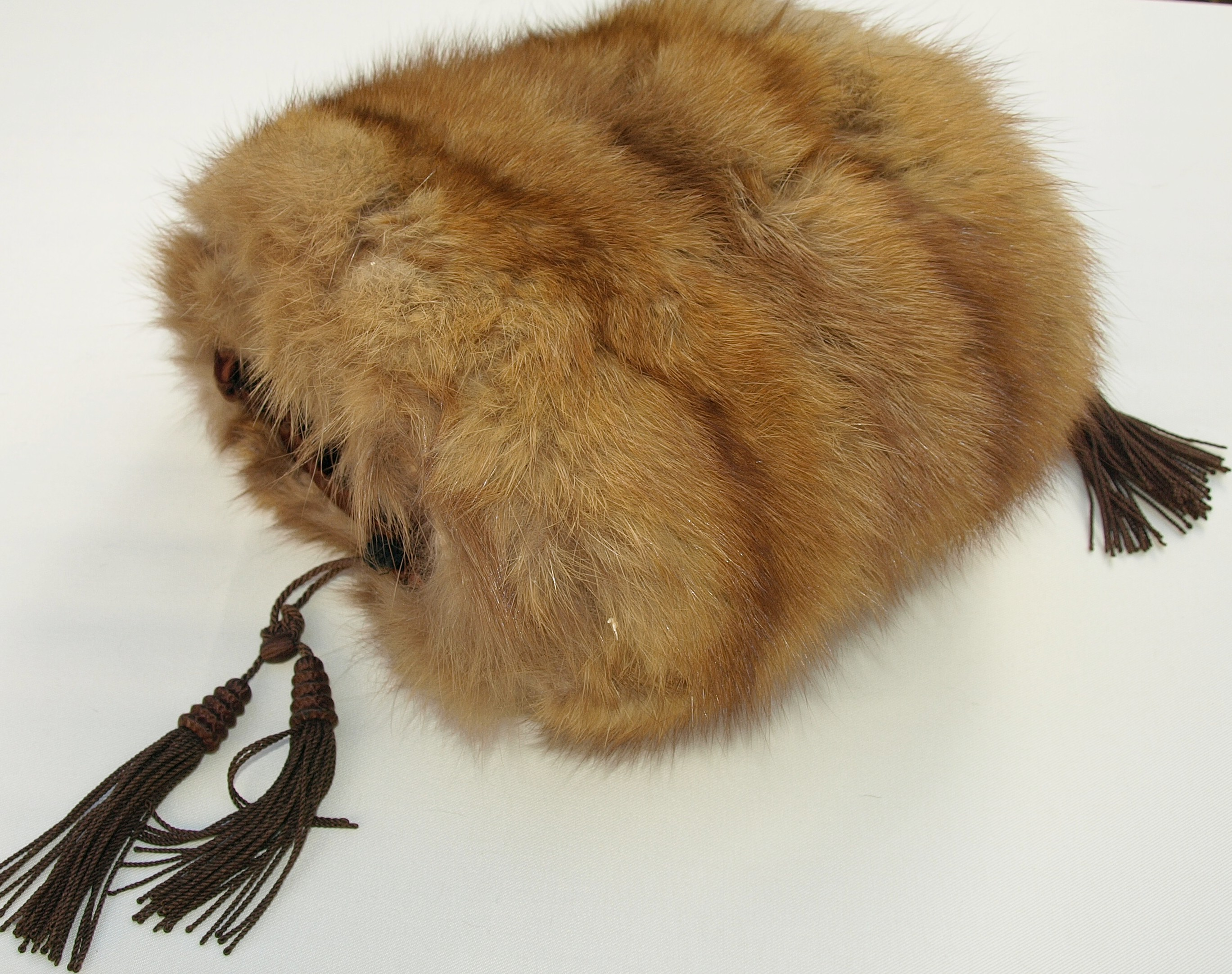 Faded Sable fur muff